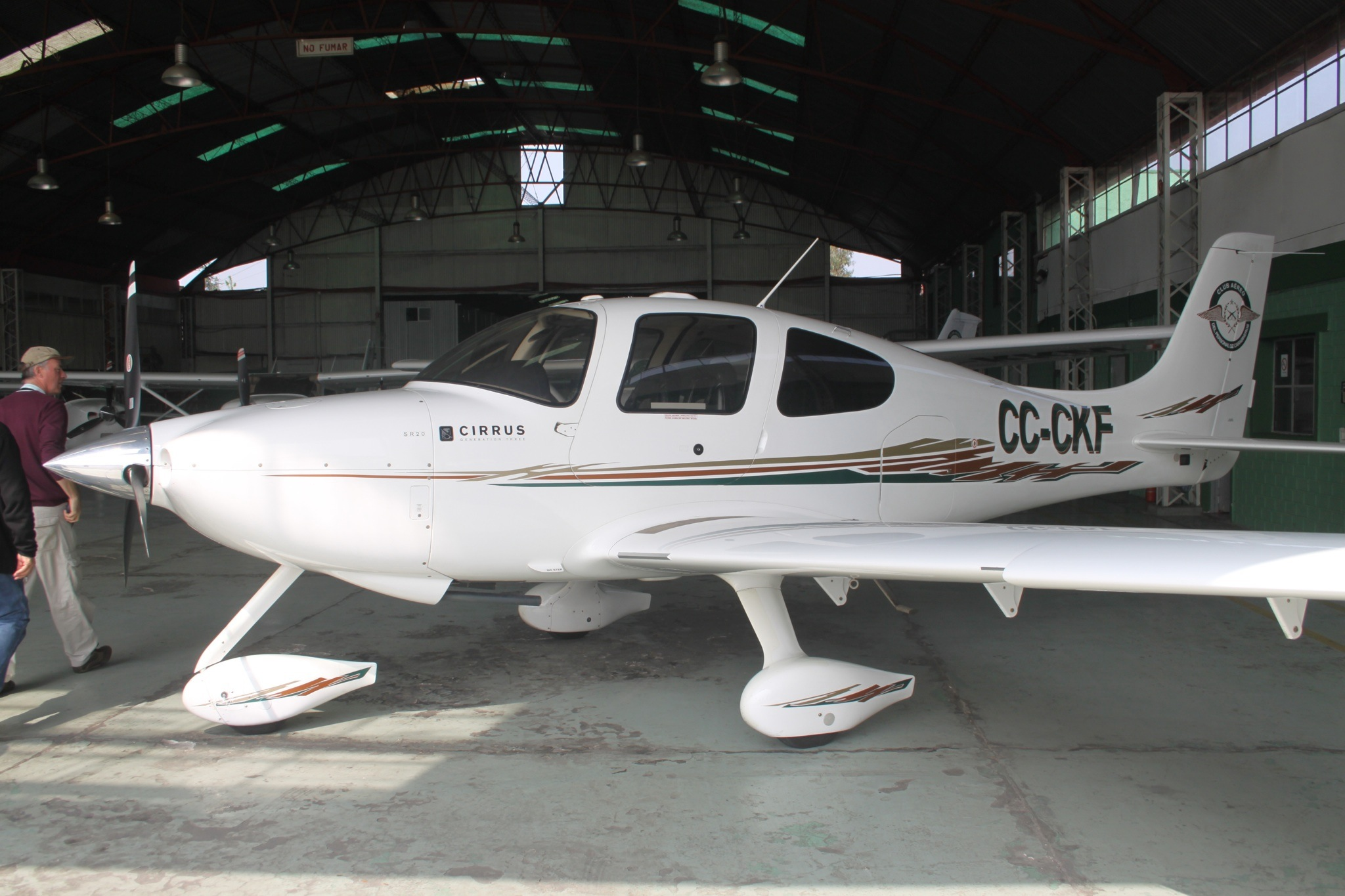 At Tobalaba